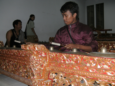 Reyong